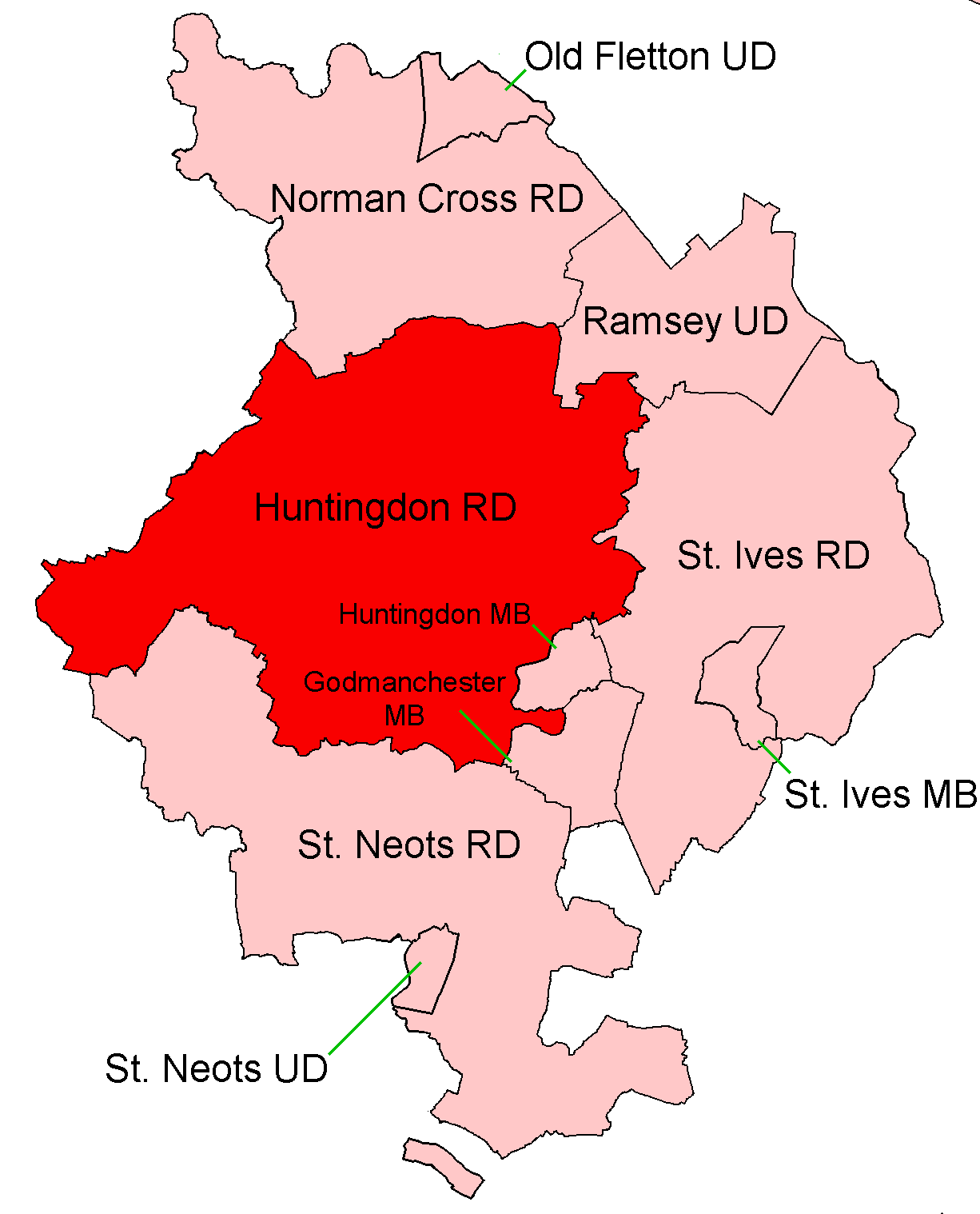 Huntingdon Rural District, shown within the administrative county of Huntingdonshire. All boundaries shown are correct for the period between 1935 and 1965 (except that Huntingdon & Godmanchester MBs merged in 1961).